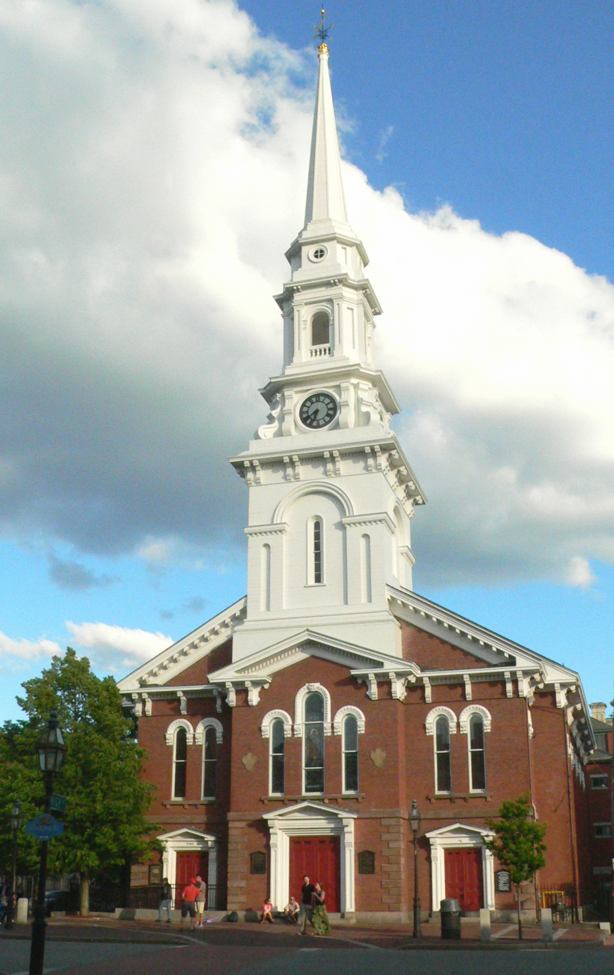 North Church